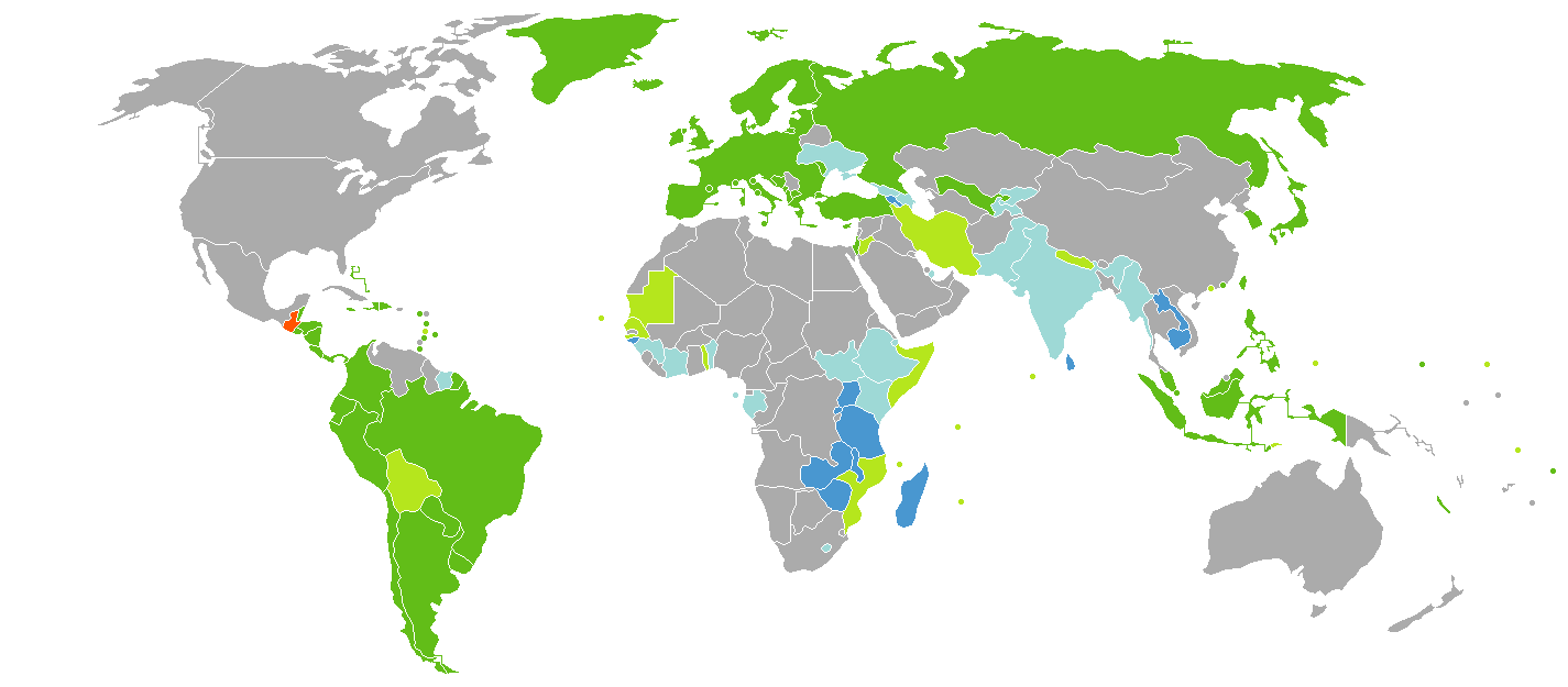 Visa requirements for Guatemalan citizens Guatemala Visa free access Visa on arrival Visa on arrival or eVisa eVisa Visa required